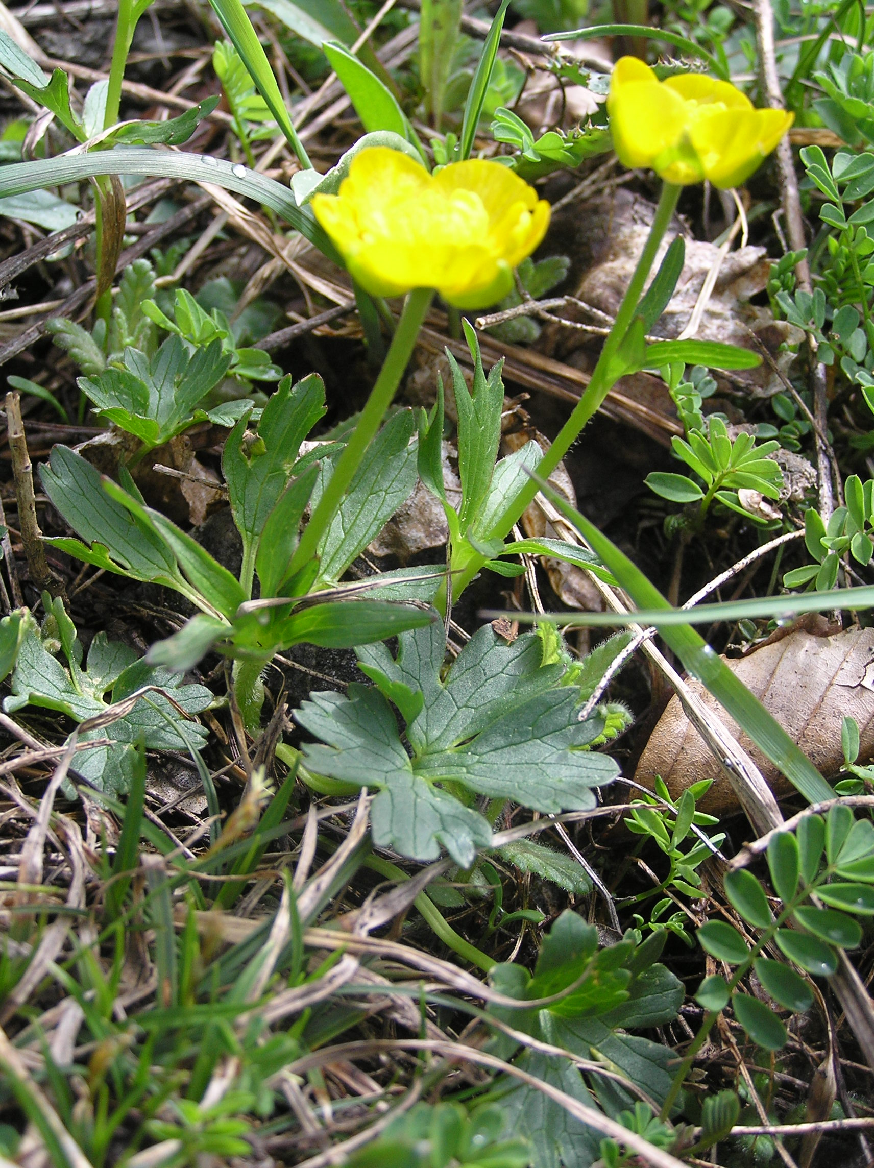 Ranunculus montanus, Austria, Alps, the mountain Schneeberg near Wiener Neustadt